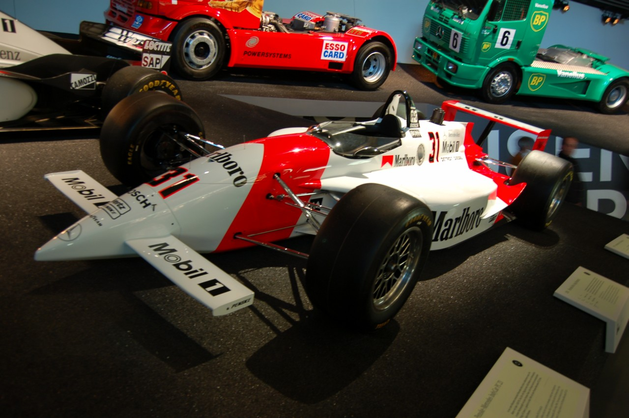 Mercedes Benz Indy car photographed at the Mercedes-Benz Museum in Stuttgart